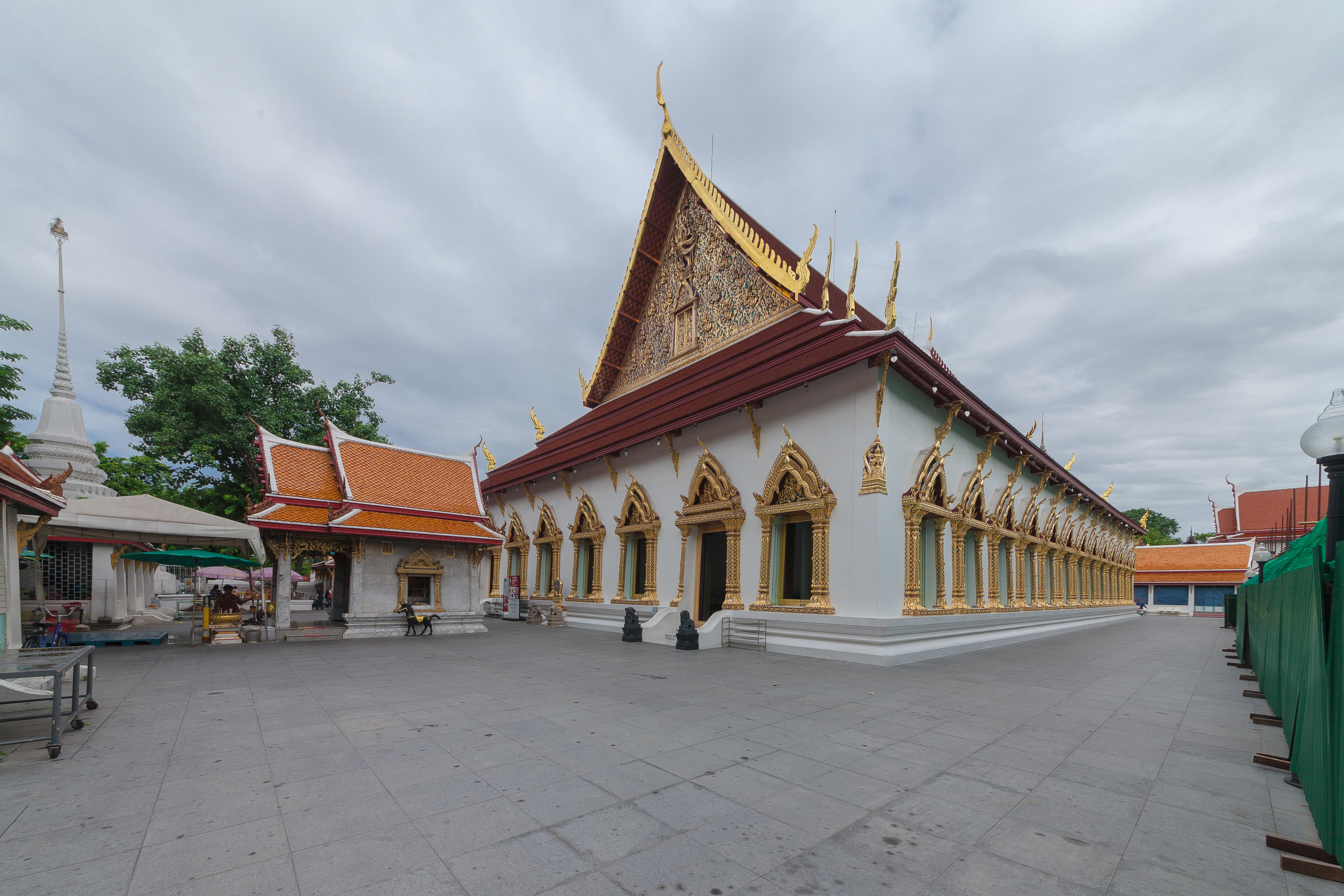 Wat Chana Songkhram, Bangkok.